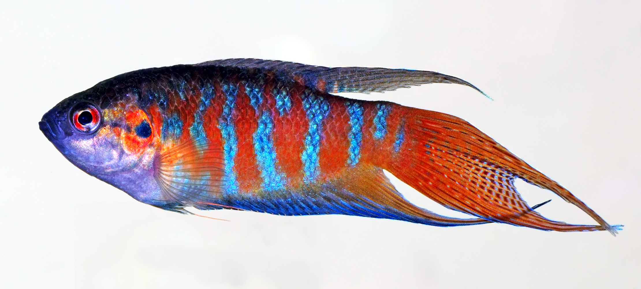 This image shows a Paradise fish (Macropodus opercularis).